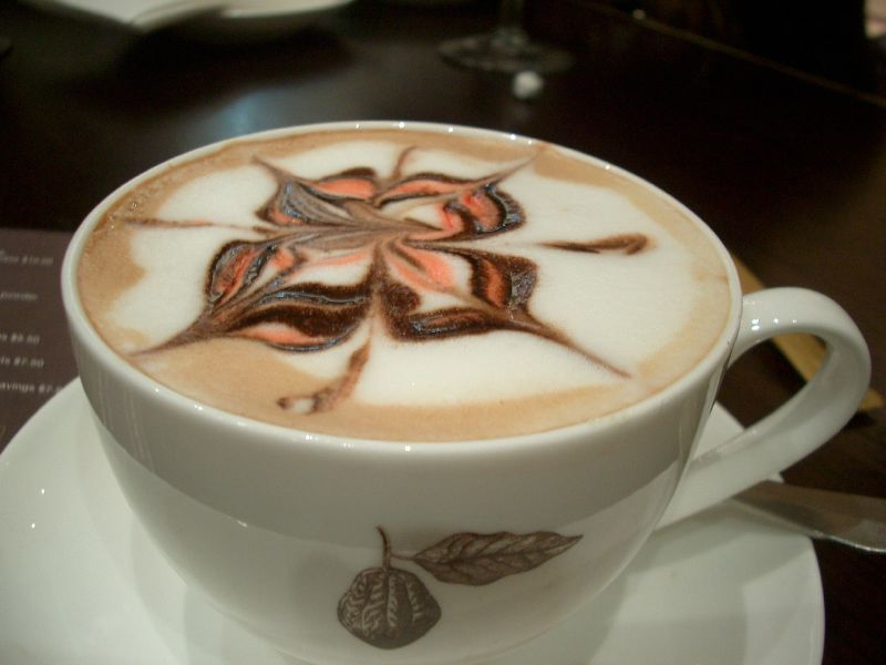 The normal hot chocolate at Koko Black is rich and very comforting, so I decided to try the Winter Chilli Blend. It was a bit too spicy, detracting from the chocolate fragrance.